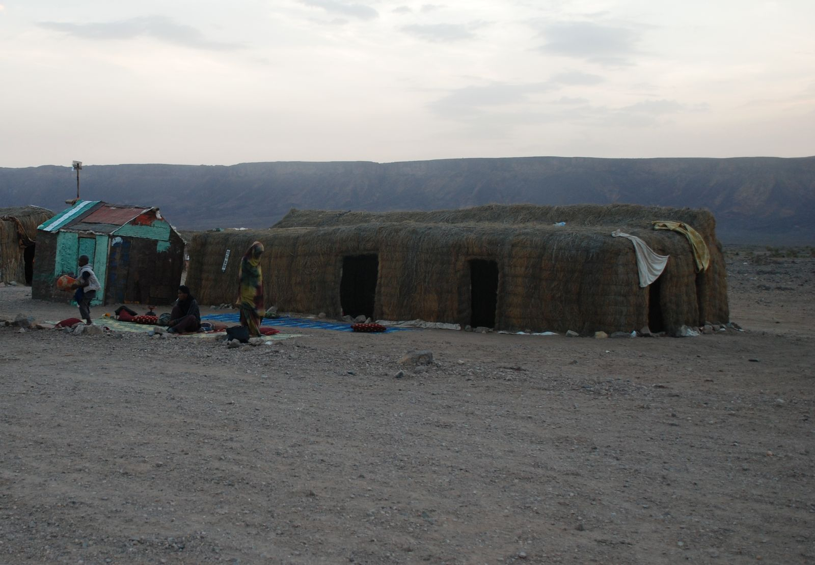 North of Atar, Mauritania, resthouse (tikkit)